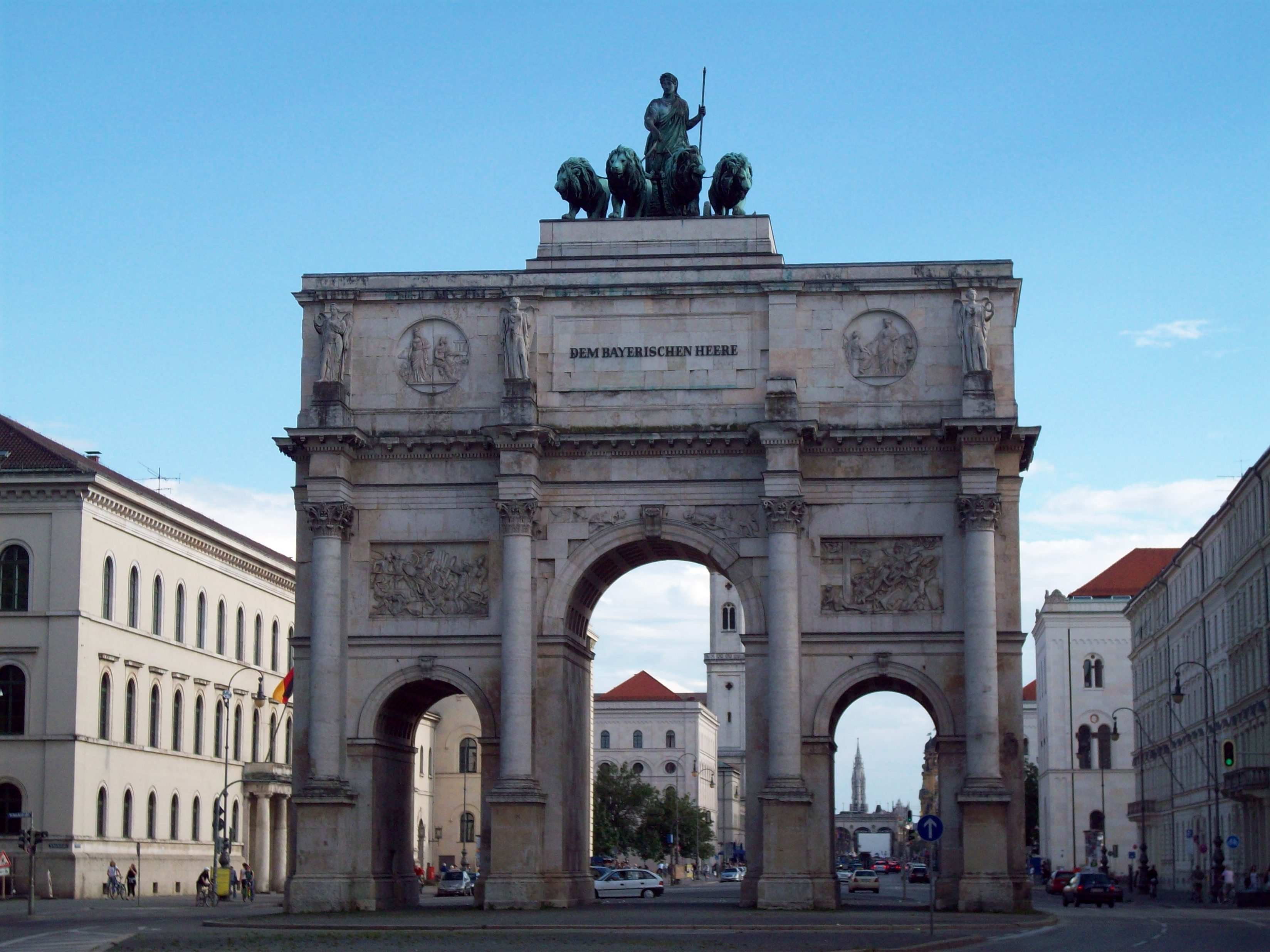 Siegestor in Munich, Germany